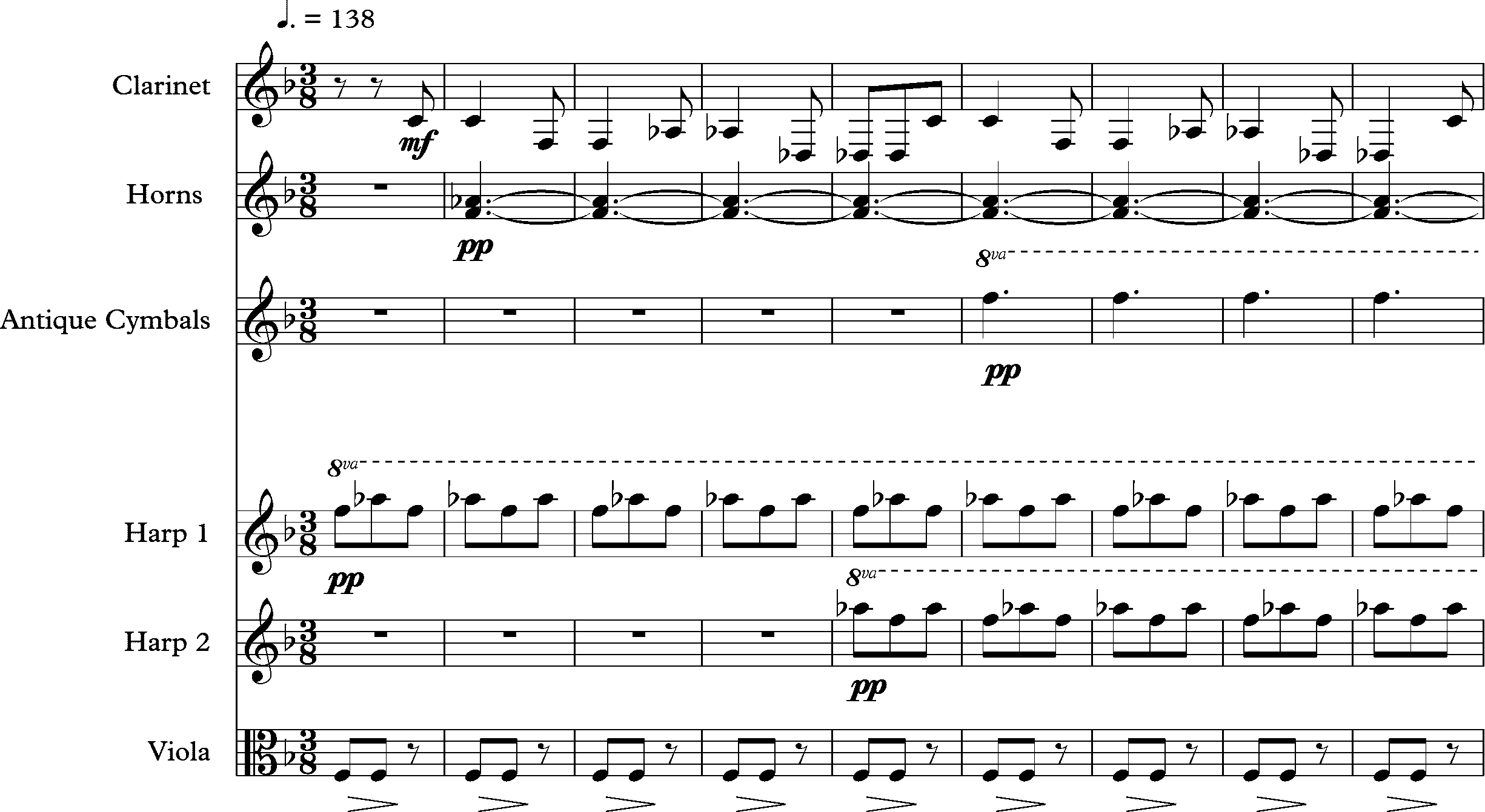 Berlioz, orchestral texture from Queen Mab Scherzo from Roméo et Juliette.